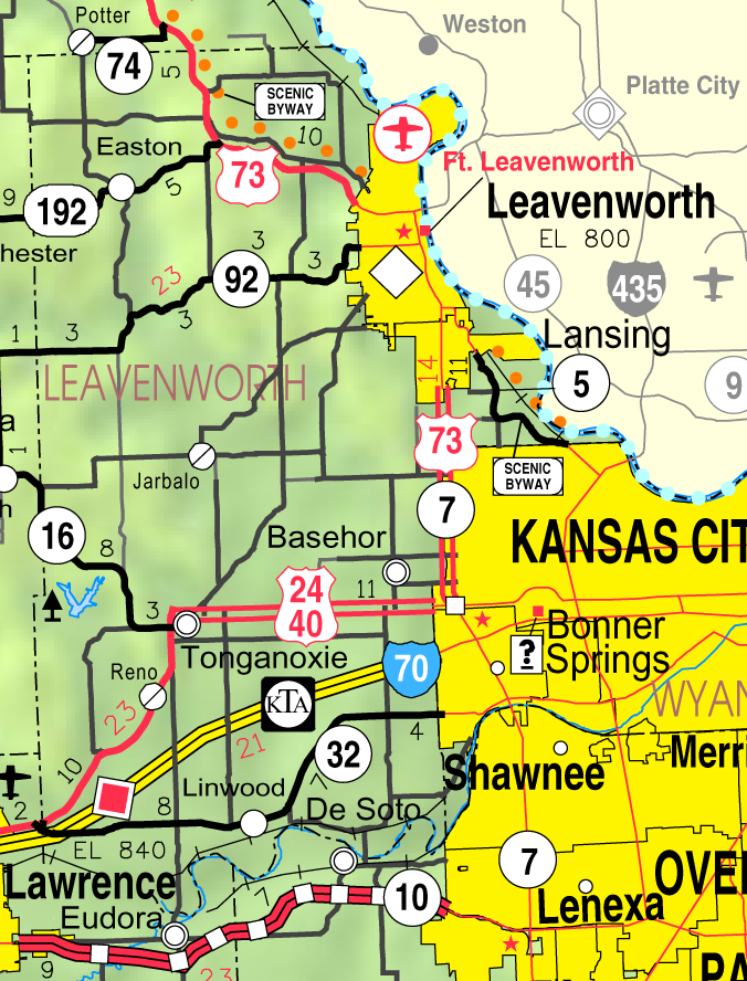 This map of Leavenworth County, Kansas, USA, is copied at a resolution of 300 pixels/inch from the original PDF file.